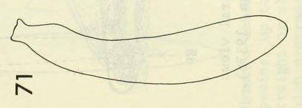 Sphalloplana (Sphalloplana) mohri (Platyhelminthes, Tricladida, Kenkiidae).After Carpenter (1970), modified.